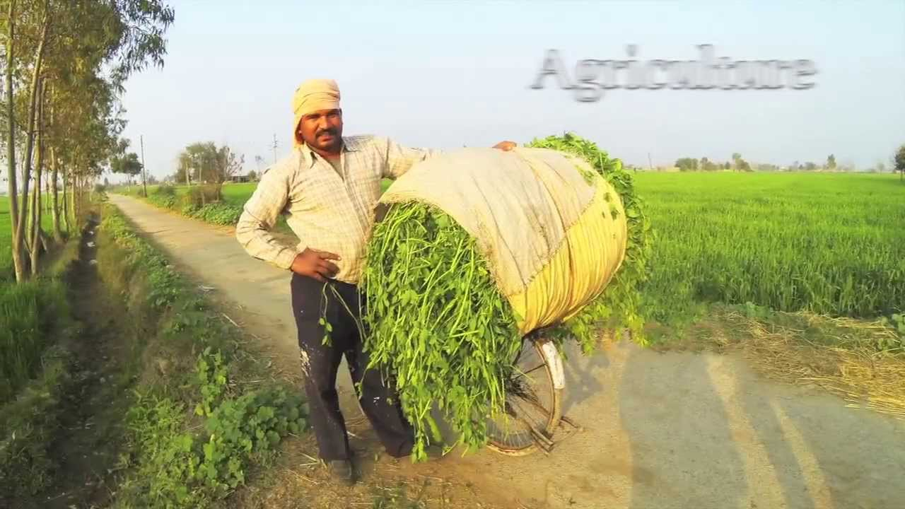 Agriculture